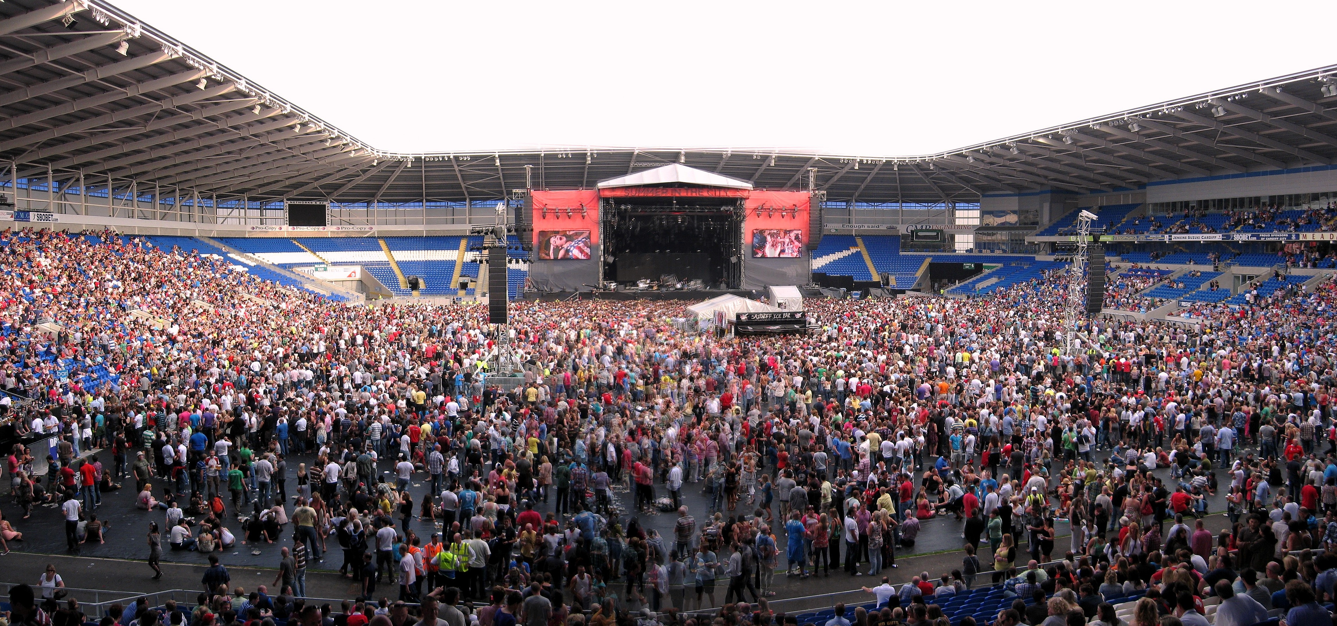 Stereophonics at Cardiff City Stadium, Cardiff, Wales